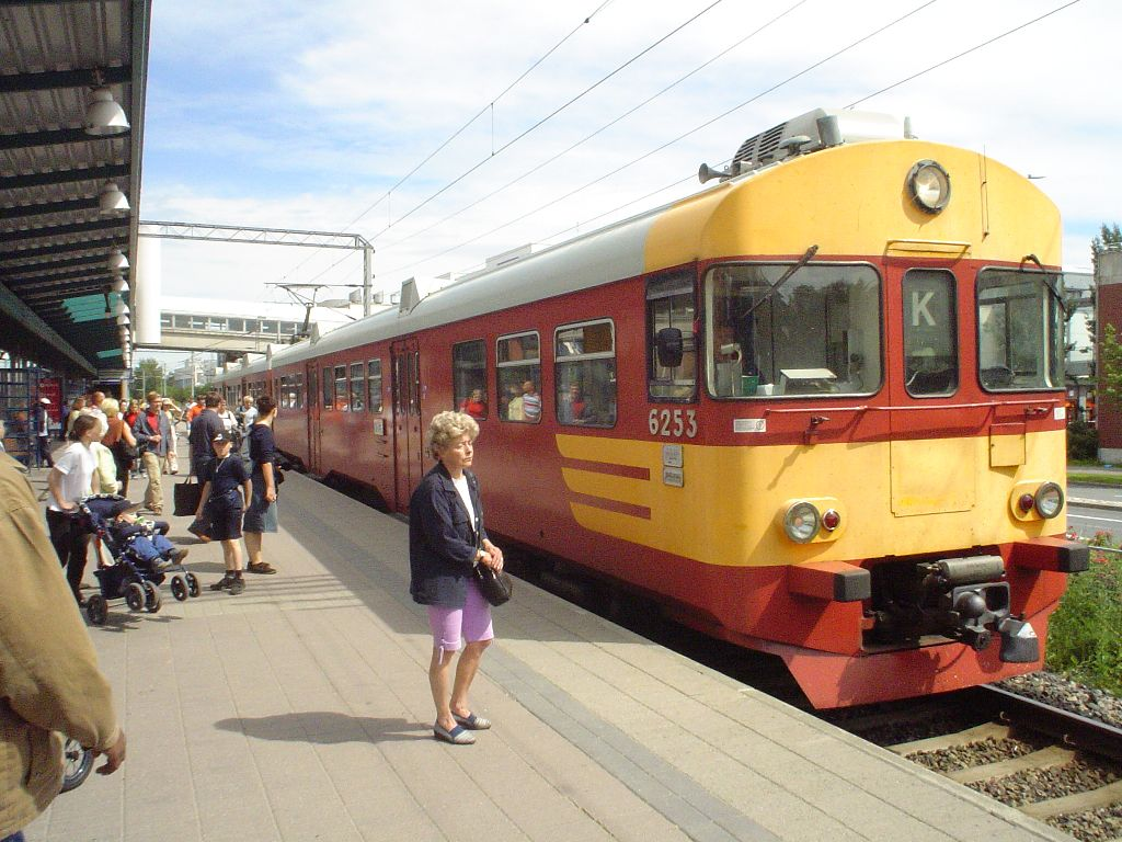 K train (VR Class Sm2 no. 6253) at Malmi railway Station in Helsinki, Finland.